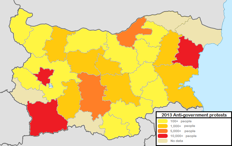 Map of protest activity peaks by oblast during the 2013 Bulgarian protests. Regions in red saw the largest number of people on the streets in February, lighter colours show smaller demonstrations. Made from another file on Commons.